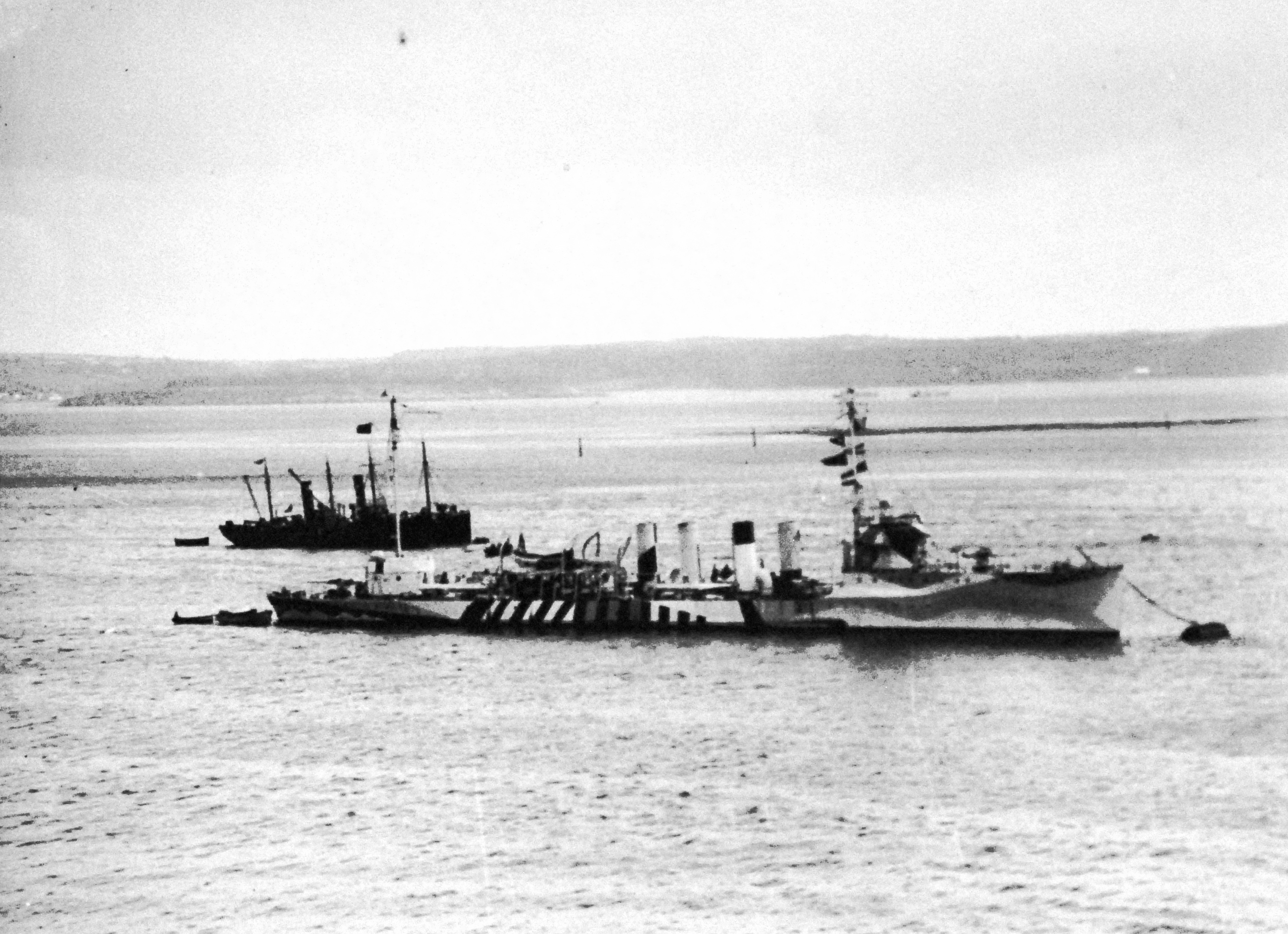 Lot 9609-30: Royal Navy (British) during the First World War. USS Wadsworth (DD 60) anchored at Queenstown, Ireland. Collection was transferred from a British government source in 1920 to the Library of Congress. (9/18/2015).